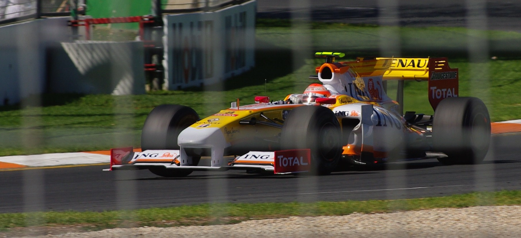 Nelson Angelo Piquet at 2009 Australian Grand Prix, Melbourne, Australia